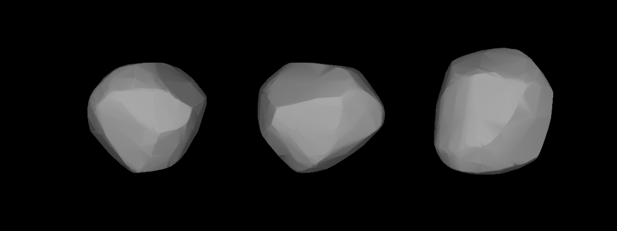 A three-dimensional model of 146 Lucina that was computed using light curve inversion techniques.